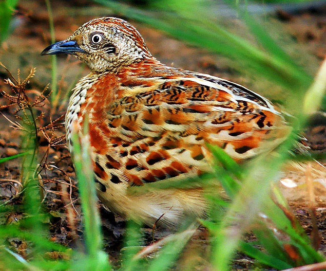 Barred Button quail or Common Bustard-Quail (Turnix suscitatior)